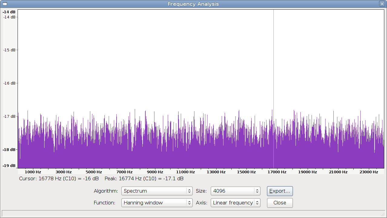 Not meant for articles. Frequency analysis for Image:Gaussian white noise.ogg